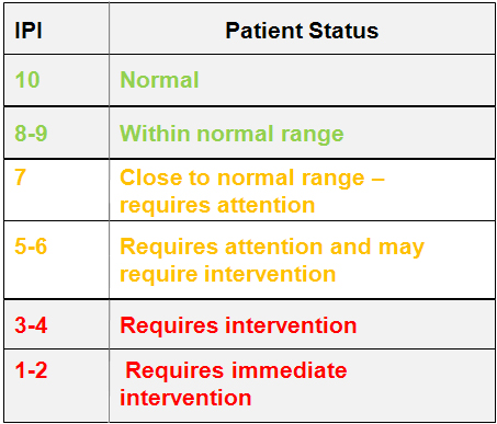 Chart describing the levels of the Integrated Pulmonary Index TM